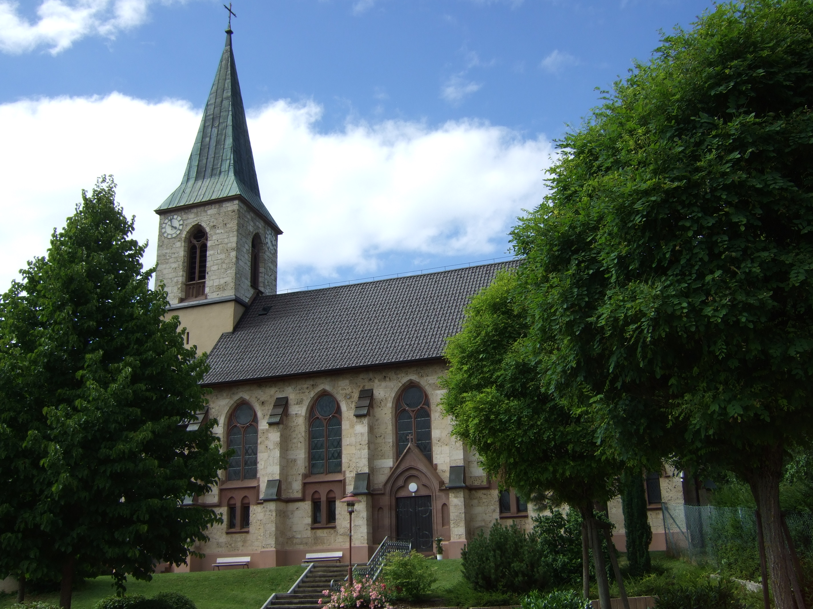 Albstadt Pfeffingen Church